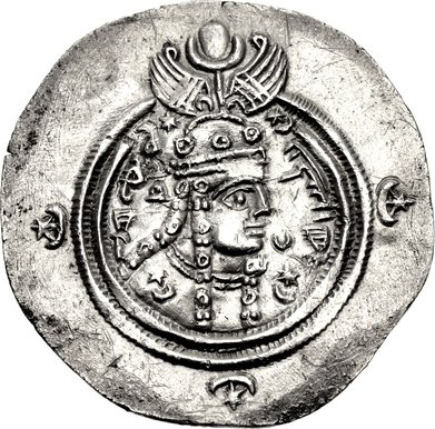 Coin of Borandukht, a Sasanian queen.